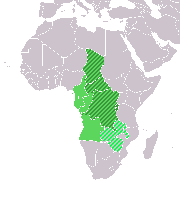 Map: Africa – Central/Middle Africa dark green: Central Africa (geographic) medium green: Middle Africa (UN subregion) light green/grey: Central African Federation (political: defunct)